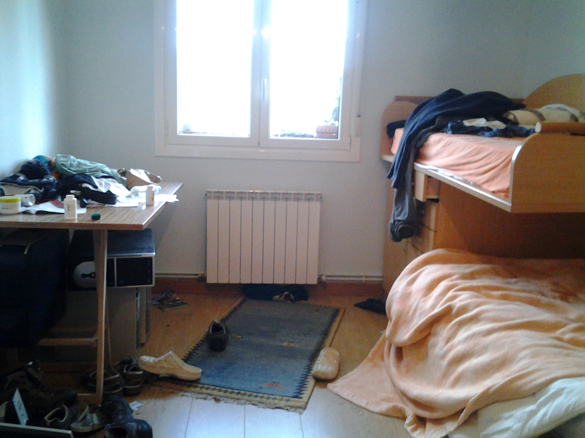 Disorderly bedroom.